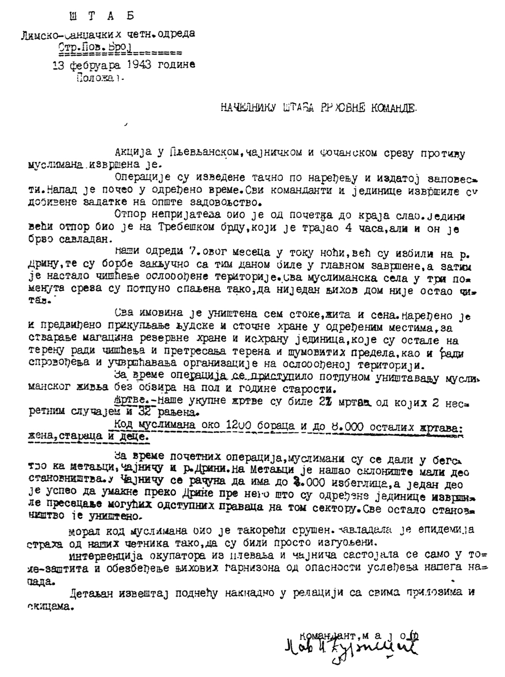 A briefing to Draža Mihailović by Pavle Đurišić dated 13 February 1943, reporting that "Chetniks killed about 1,200 Muslim fighters and about 8,000 old people, women, and children; Chetnik losses in the action were 22 killed and 32 wounded."